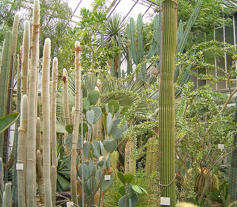 Cactus collection - BG Heidelberg, Germany